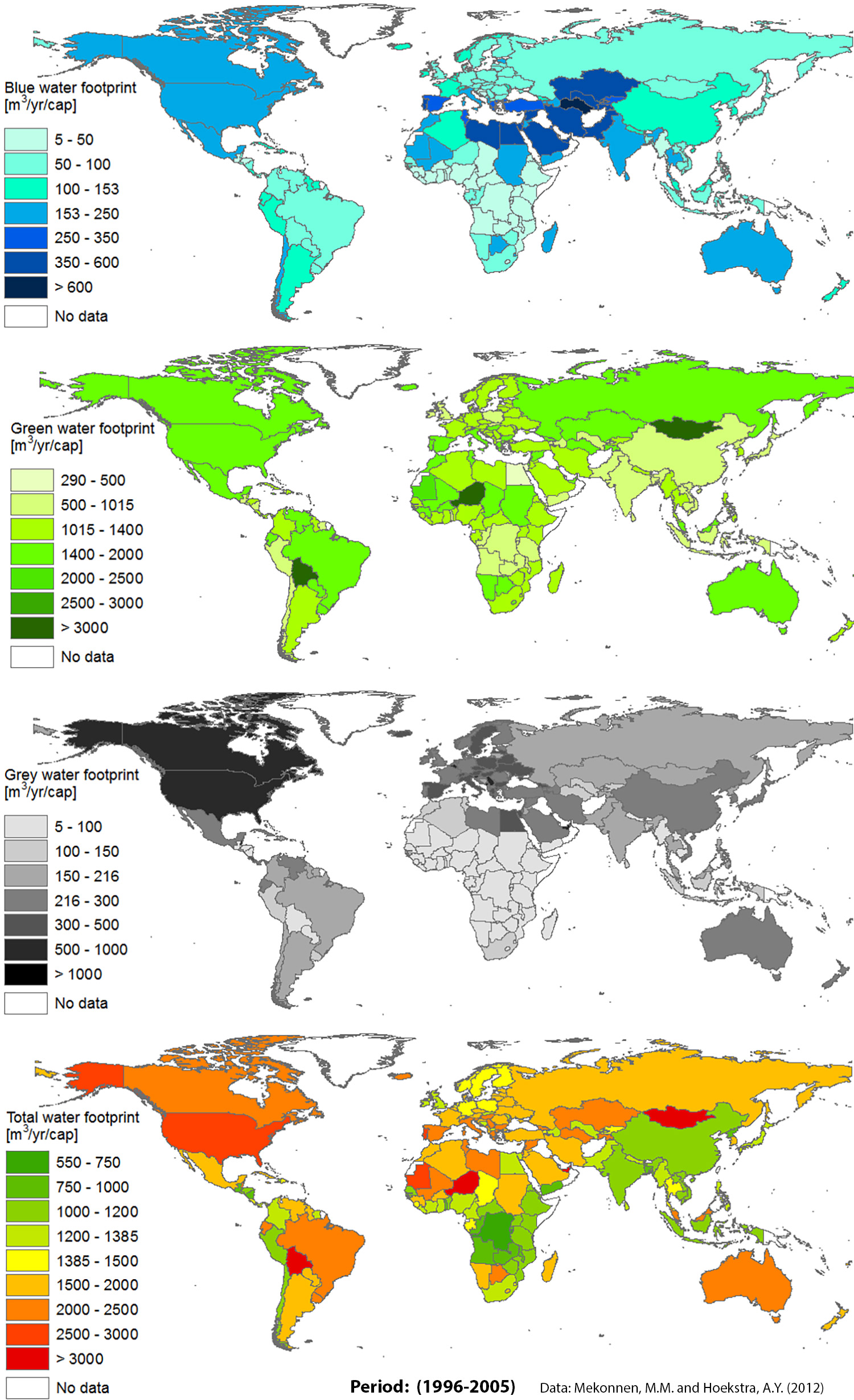 Blue, Green and Grey National Water Footprints per capita, 1996-2005.